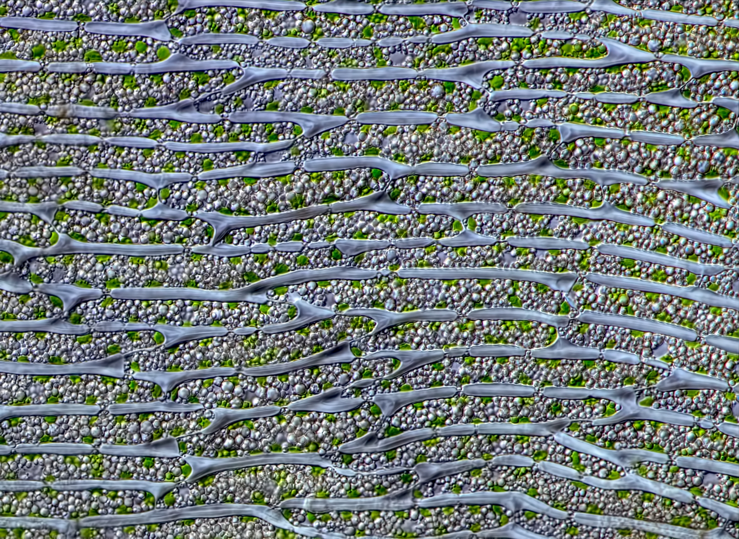 Leaf cells of Dicranum fuscescens showing oil drops, cell wall pits and chloroplasts